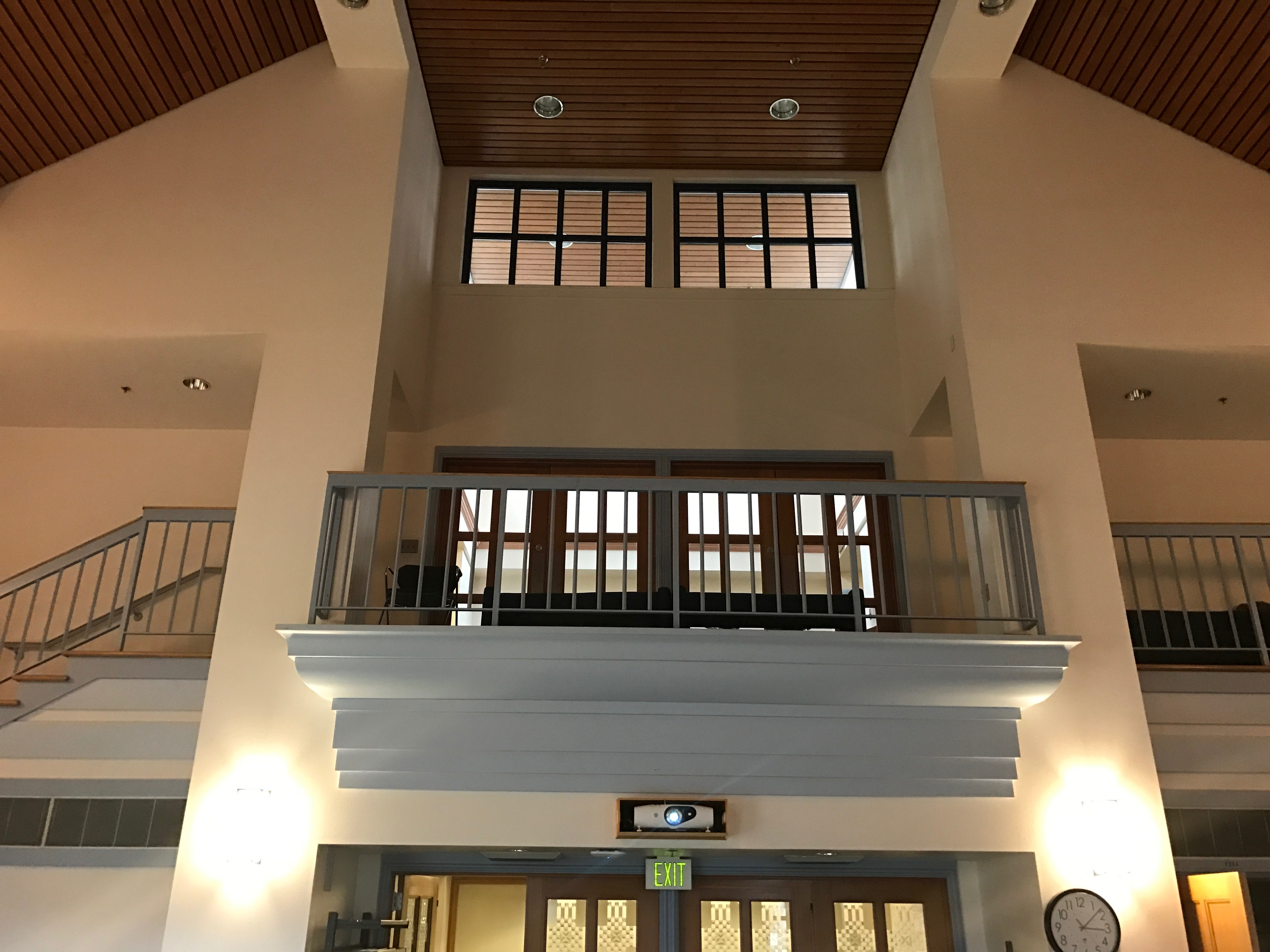 The lecture room in Deschutes Hall from the front of the room